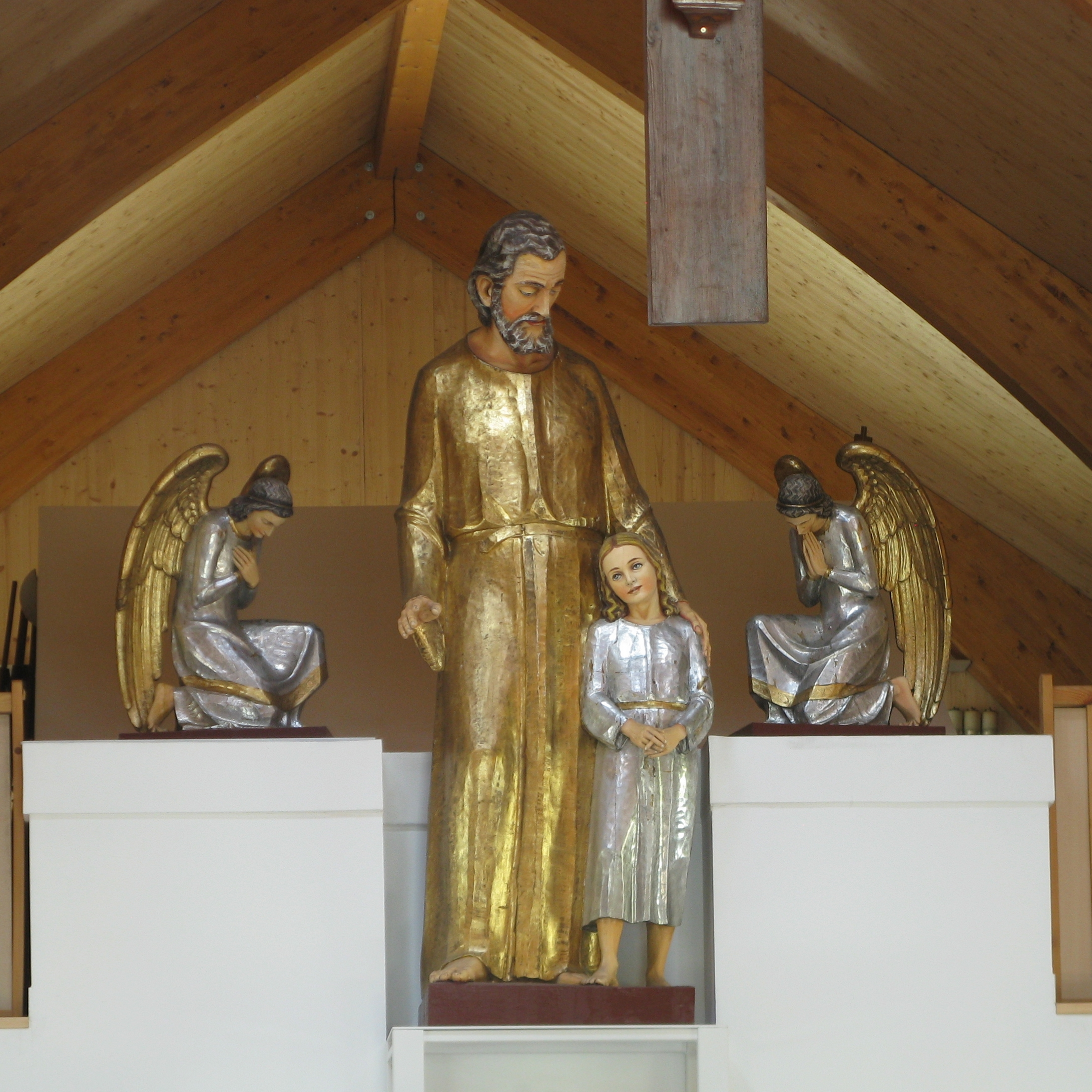 Bytom Joseph church statue, made by Franz Schink, ca. 1934.